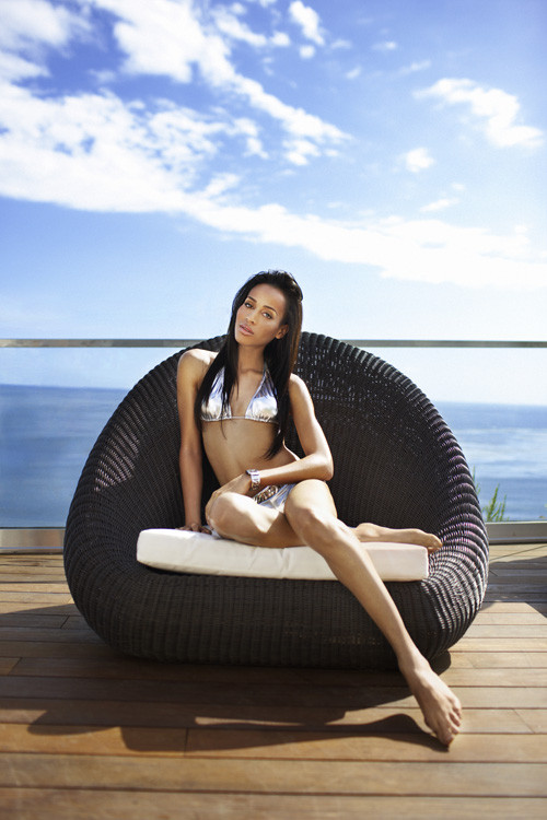 Work for hire photo of Isis King.